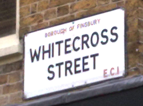 Street signs at the corner of Whitecross Street and Banner Street, London EC1